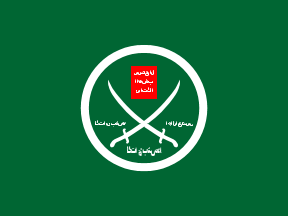 Flag of the Muslim Brotherhood